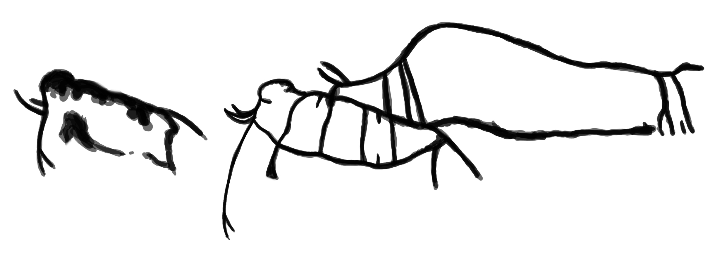 Tracings of petroglyphs depicting two Columbian mammoths, the right one has a bison superimposed over it.